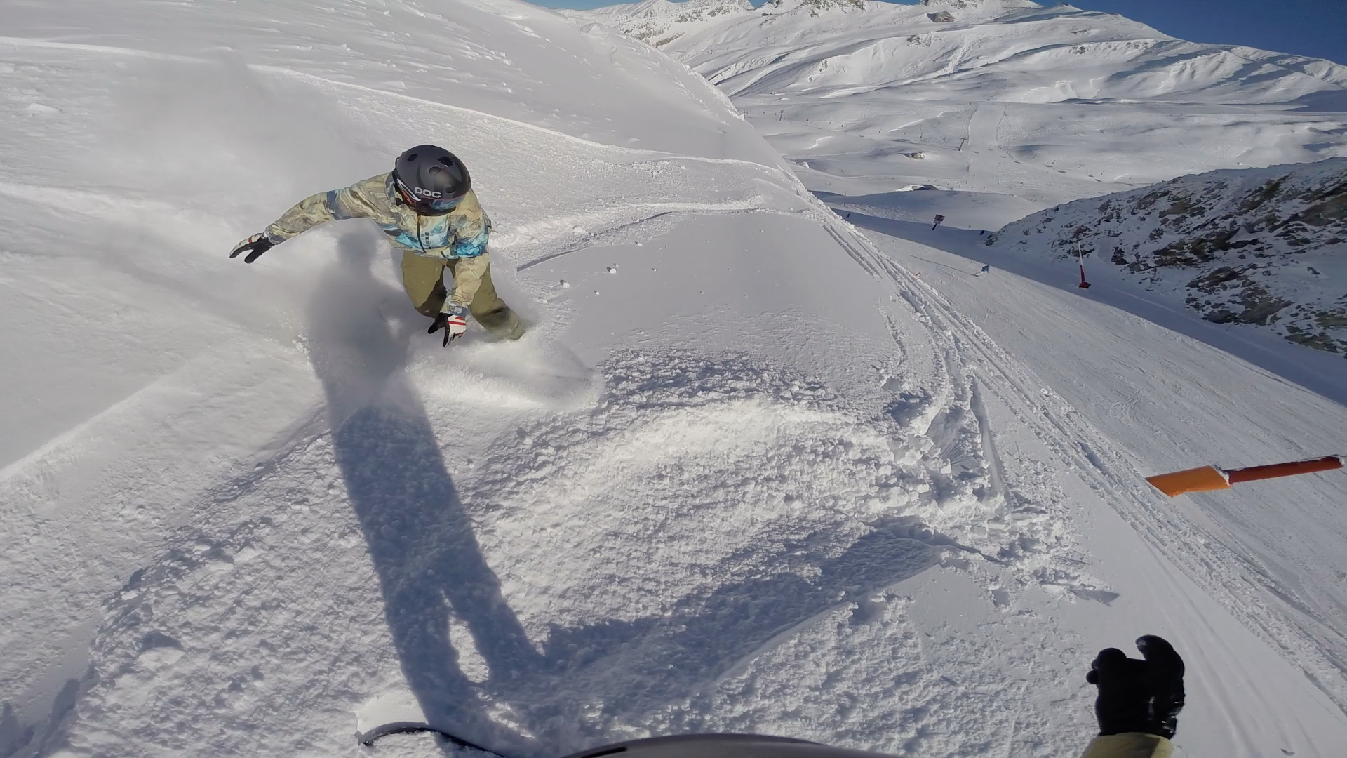 snowboarding in ischgl, austria